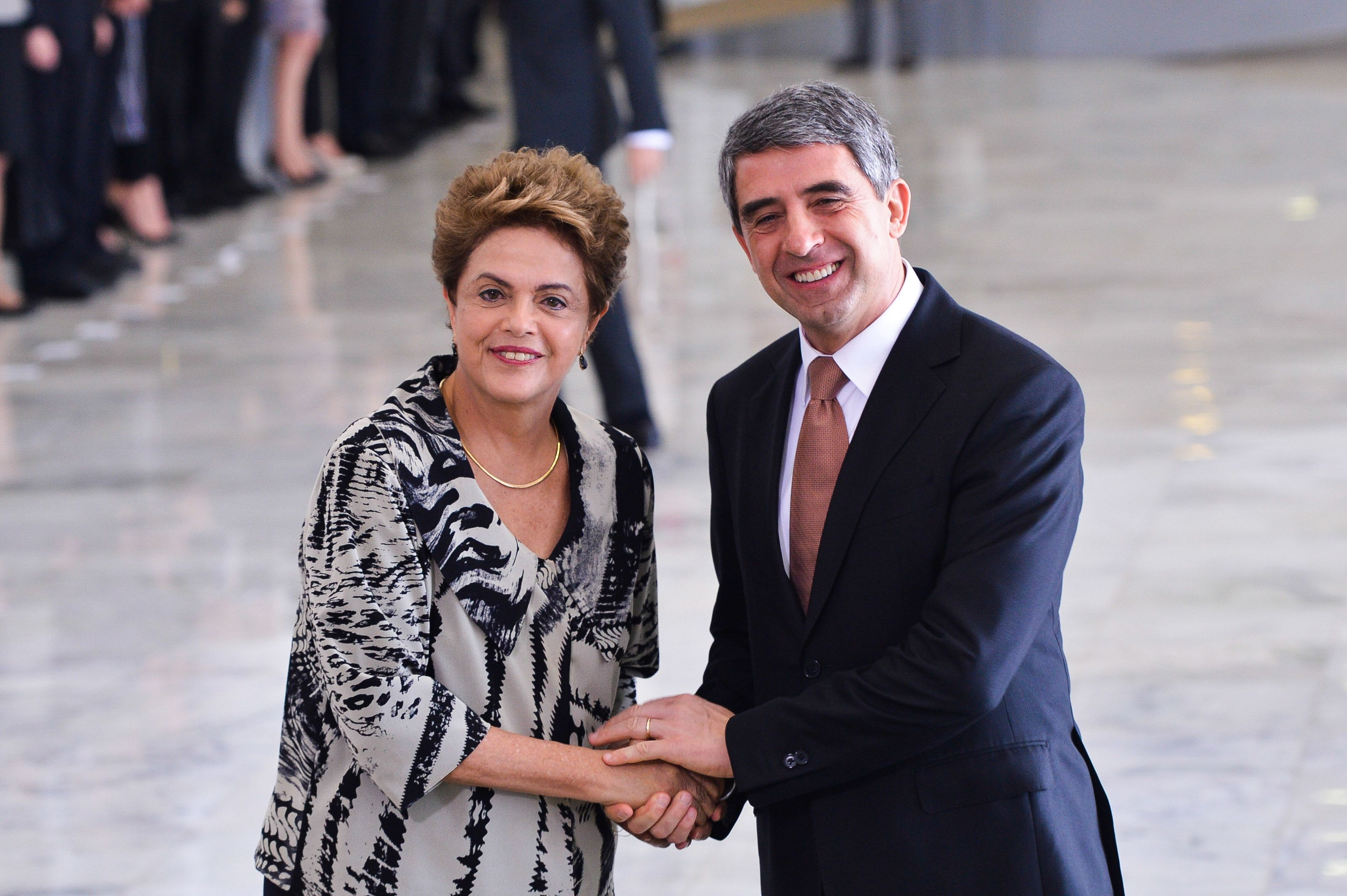 Brasília - Presidents of Brazil, Dilma Rousseff, and Bulgaria, Rosen Plevneliev (Antônio Cruz/Agência Brasil)